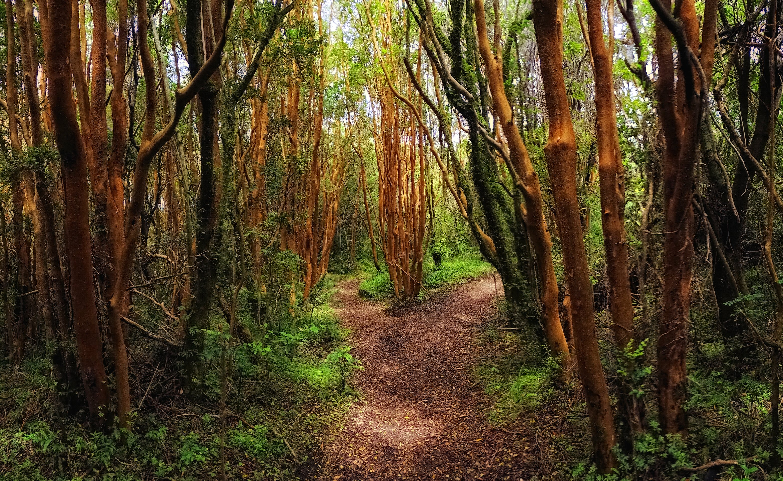 A trail through Valdivian temperate rainforest in Chiloé National Park, near Cucao.